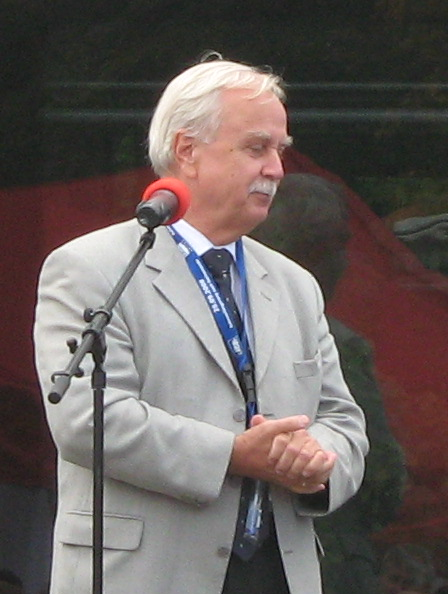 Johannes Ludewig at Ahlbeck Grenze during a speech. Opening of the new UBB railway link to Świnoujście Centrum.